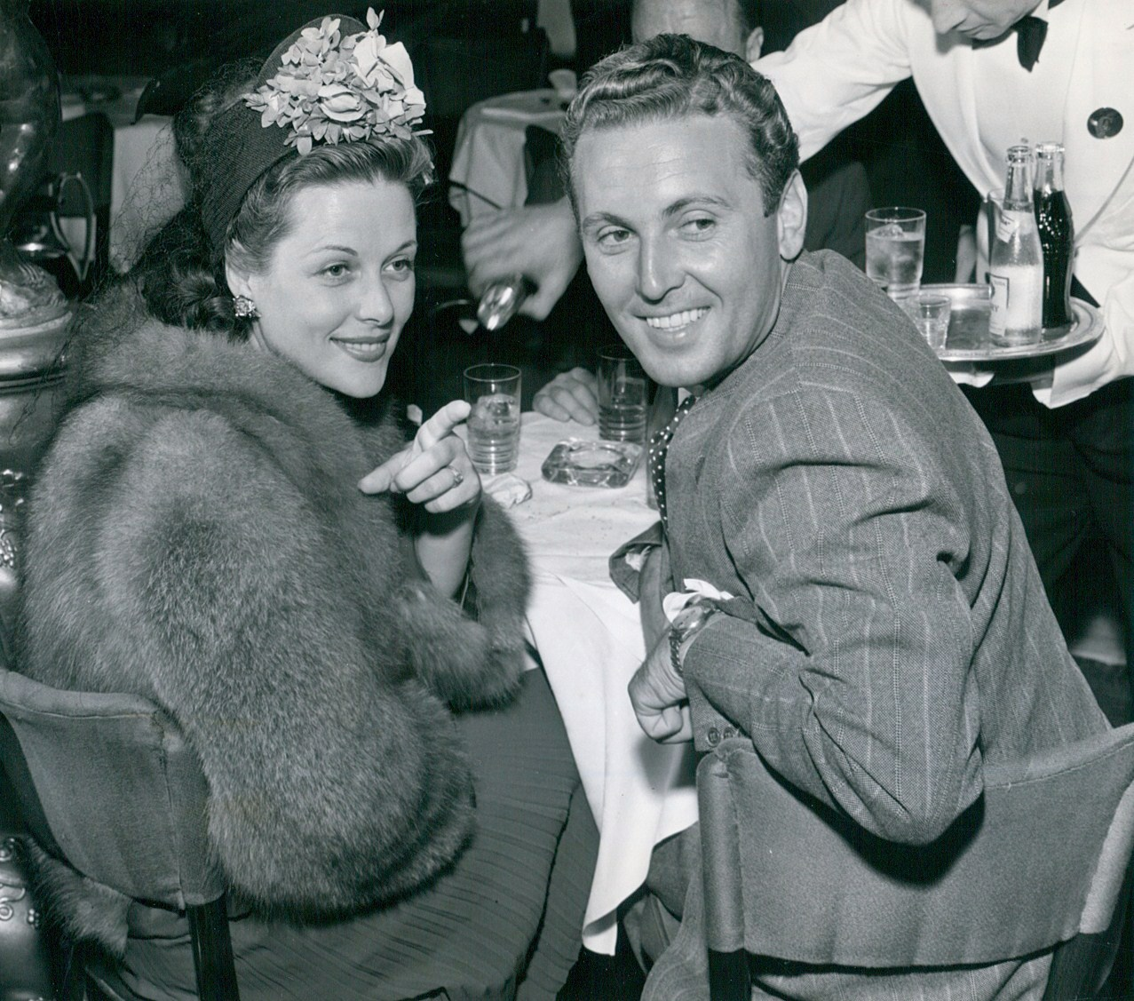 american actors (husband and wife) Allan Jones & Irene Hervey - publicity still (cropped)